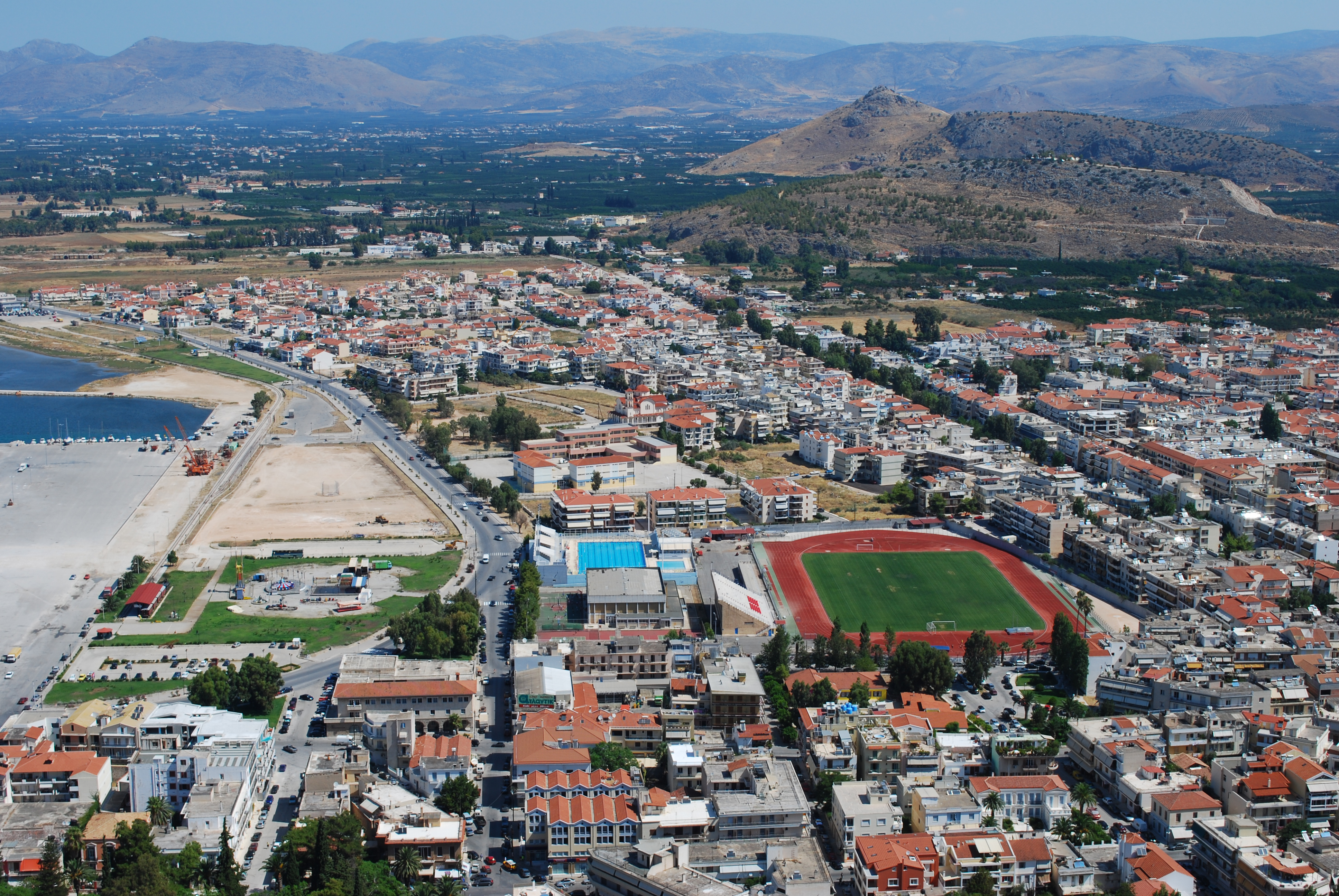 Nafplion, view from Palamidi Castle.